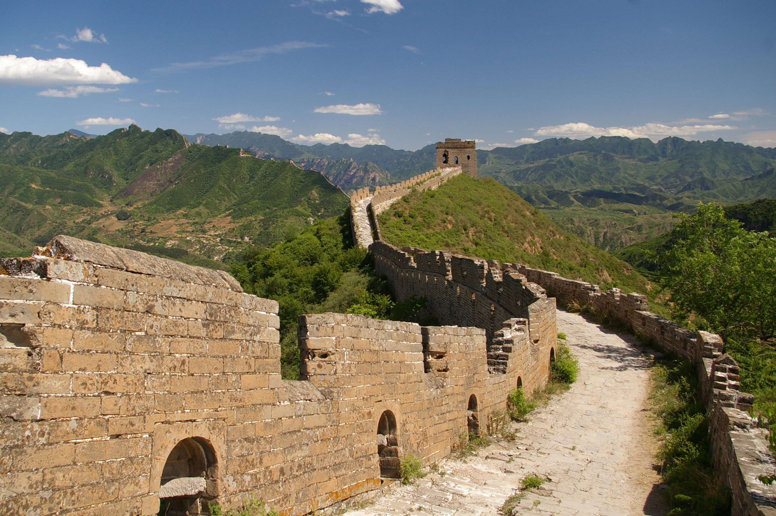 Great Wall of China near Simatai